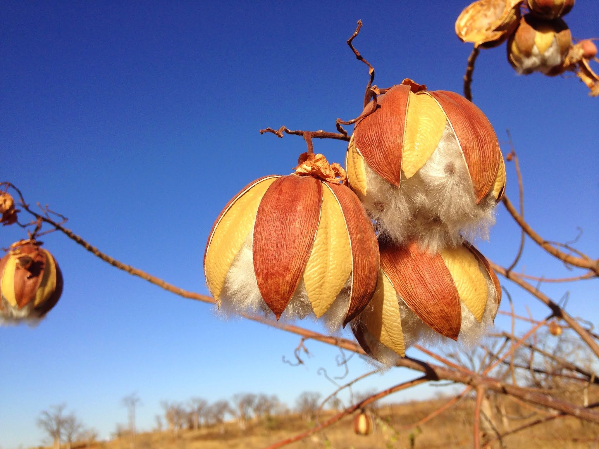 wildflower seed capsule boll outback nature (Australia)